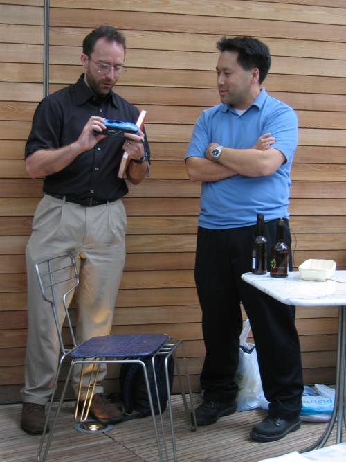 Jimbo Wales and Andrew Lih at Inn The Park. Photograph taken by Michael Reeve, 5 June 2004.